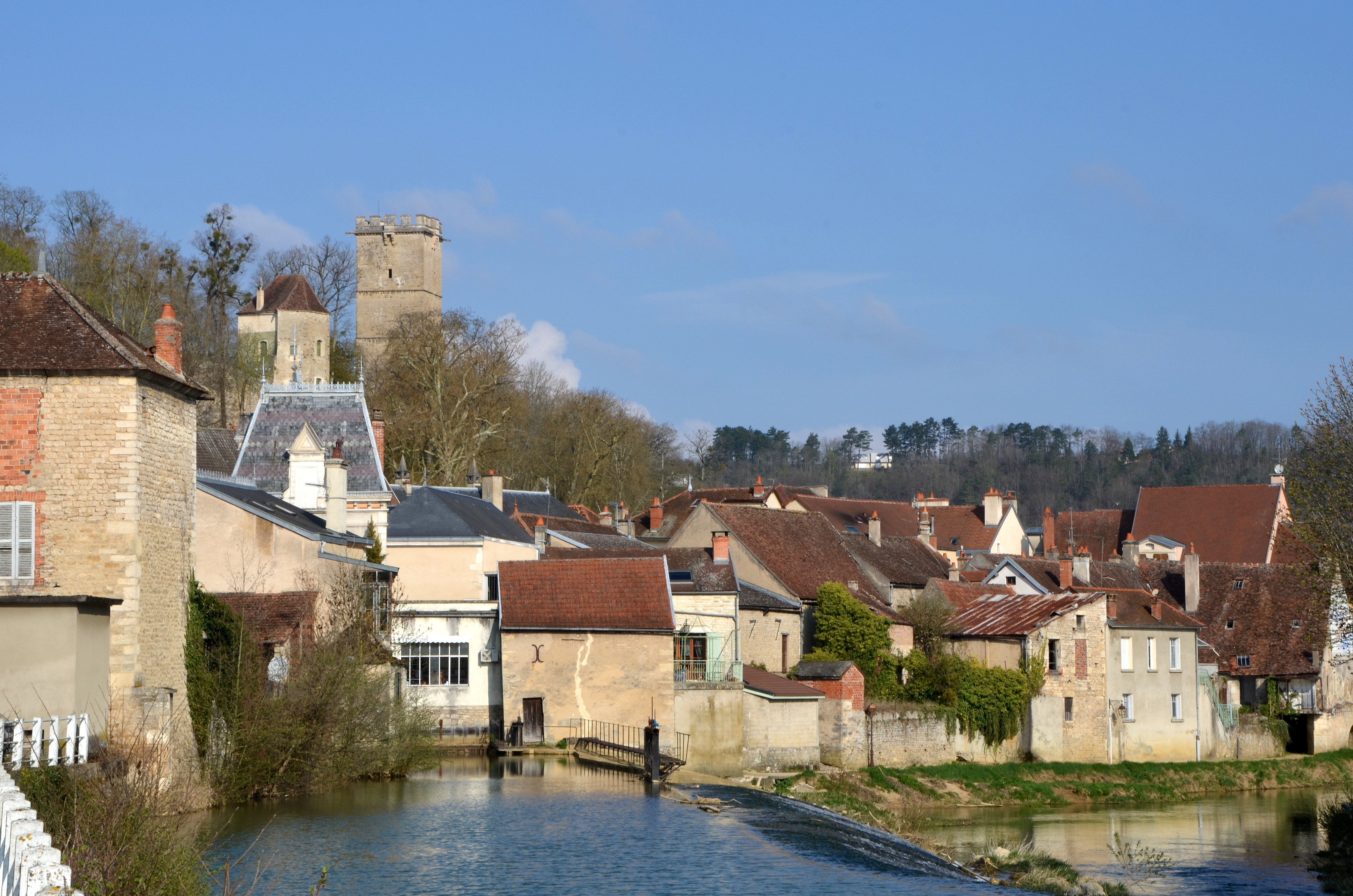 The Brenne river in Montbard, Côte d'Or, Bourgogne, France